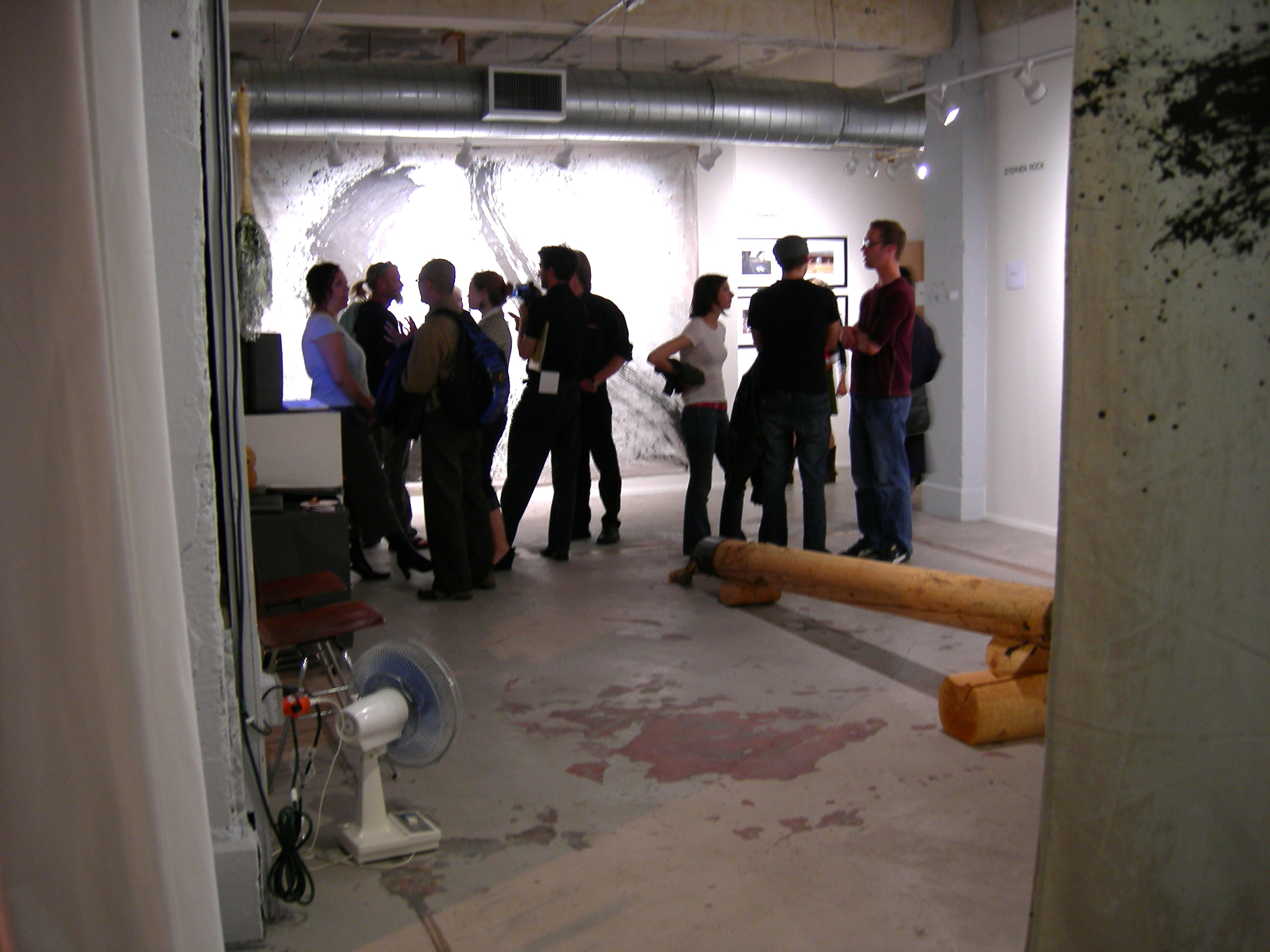 Rock/Dement Gallery, Toshiro-Kaplan Building in Seattle's Pioneer Square neighborhood. First Thursday, September 2006. First Thursday is the traditional evening for gallery openings in the Pioneer Square neighborhood, and for artists in the neighborhood to open their studios to the general public. The Toshiro-Kaplan Building contains over a dozen galleries numerous artists' studios, and a few other related businesses. The exhibit having its opening is of paintings made with giant brushes.